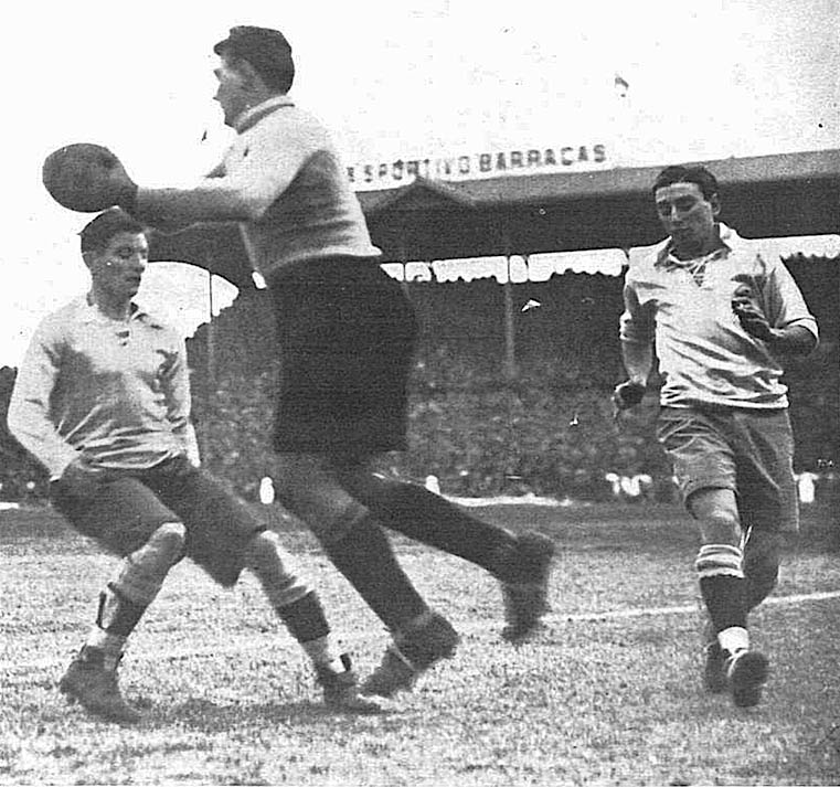 FC Barcelona goalkeeper, Ferenc Plattko, catching the ball while Domingo Tarasconi (left) and Raimundo Orsi try to score.